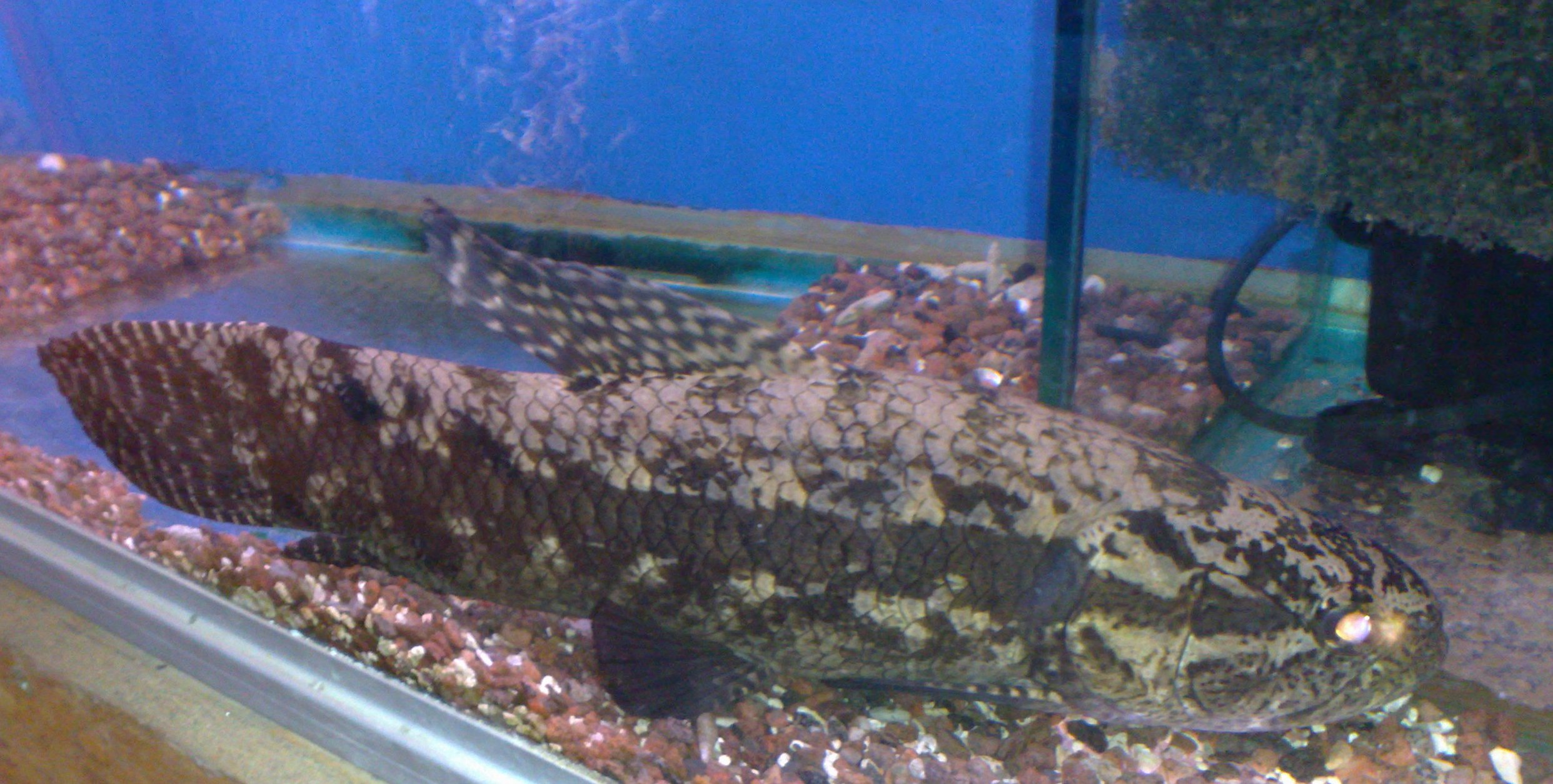 Hoplias macropthalmus in the pet shop Midtun Zoo, Midtun, Bergen, Norway